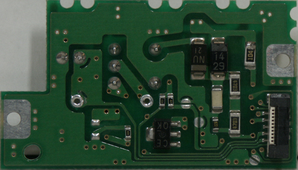 dimage 7hi flash pcb